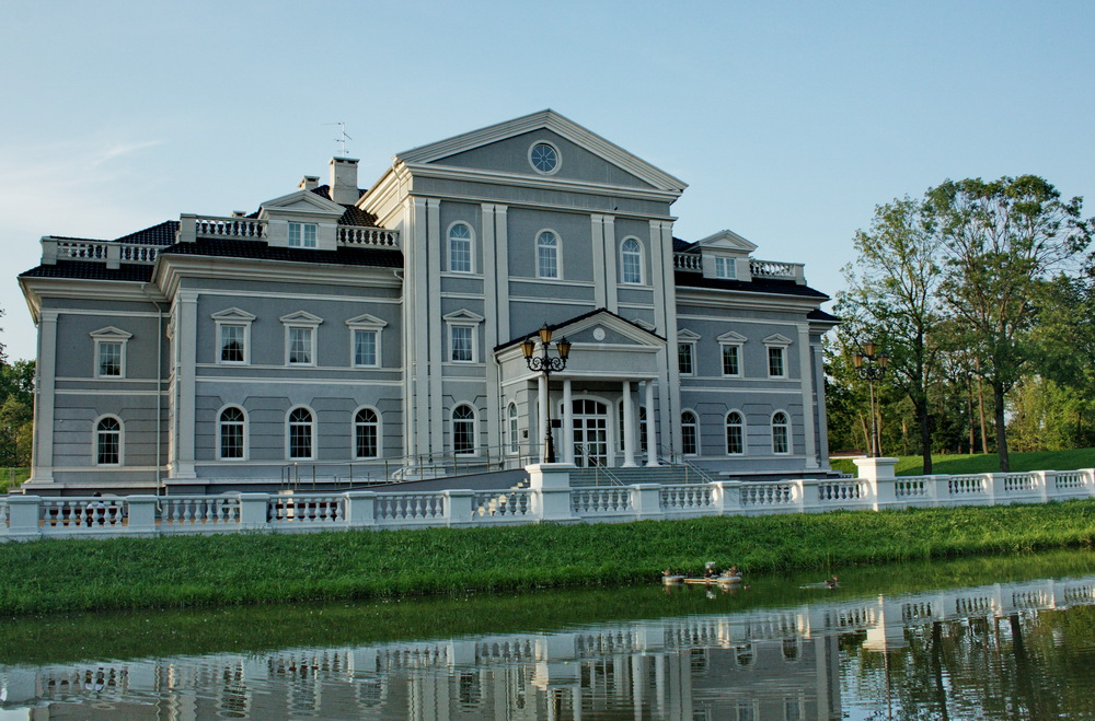 Center of Russian Language